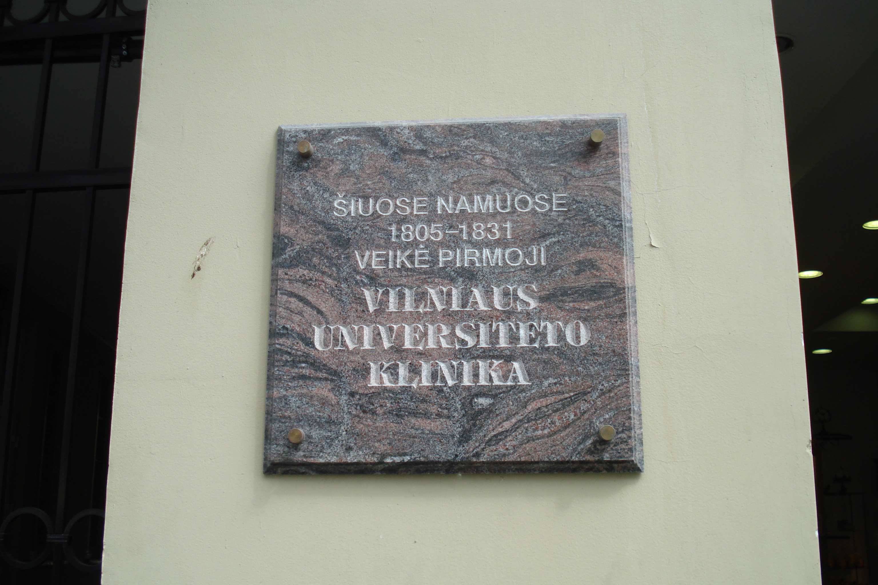 Plaque in memory of the first Vilnius University Clinic 1805-1831, Didžioji g. 10